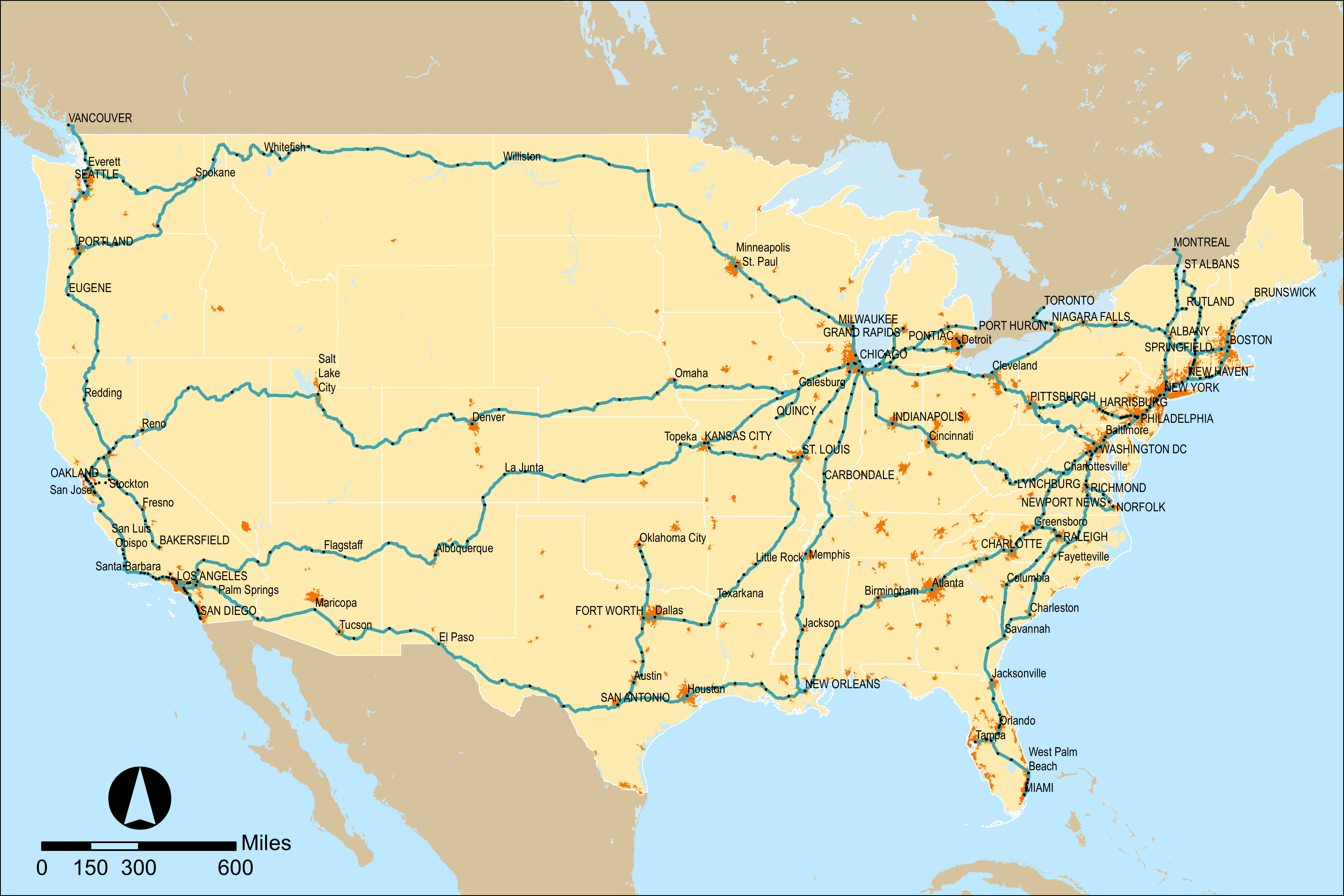 Map of Amtrak's rail network as of mid 2016. Updates should be uploaded as separate files rather than overwriting this one.